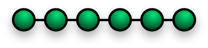 Created by me using OmniGraffle and released into the public domain. Original file available on request.